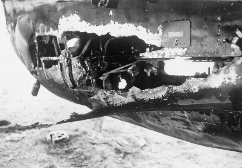 Royal Air Force Bomber Command, 1939-1941. The shell-torn rear gunner's compartment of Handley Page Hampden Mark I, P1355 'OL-W', of No. 83 Squadron RAF photographed at Scampton, Lincolnshire, on the morning after returning from a night attack on invasion barges at Antwerp, Holland. It was during this sortie that the wireless operator/air gunner of the Hampden's crew, Flight Sergeant John Hannah, earned the award of the Victoria Cross for his bravery when the aircraft was severely damaged and set on fire.